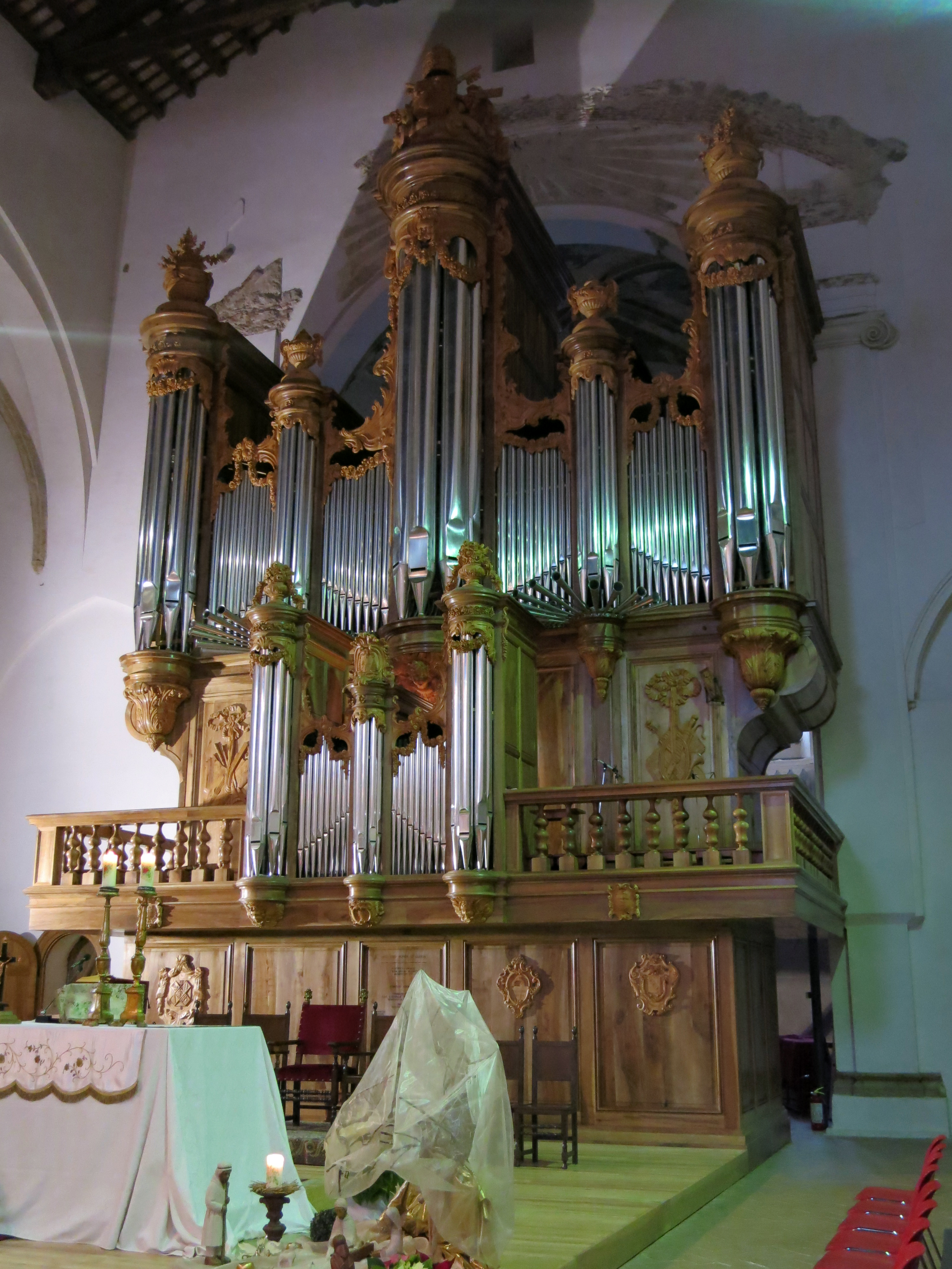 Dom Bedos-Roubo pipe organ in saint Dominic church - Rieti, Lazio, Italy